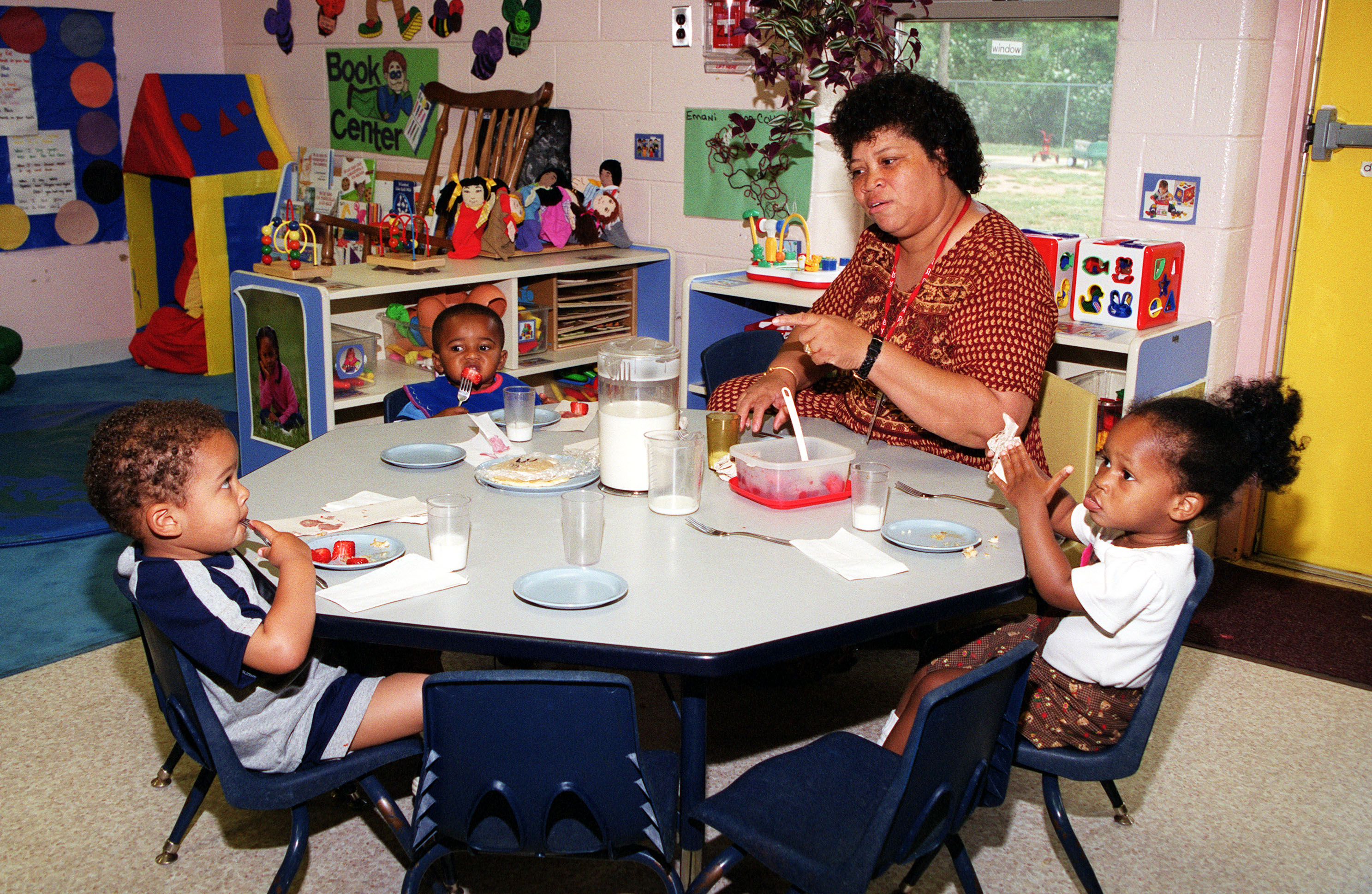 Military dependent children at this Child Development Center at Fort Belvoir, Va., and others like it at bases throughout the world enjoy some of the most affordable and high-quality child care in the country according to the National Women's Law Center. Secretary of Defense William S. Cohen was presented a copy of the study entitled "Be All That We Can Be: Lessons from the Military for Improving Our Nation's Child Care System" by Nancy Campbell, co-director of the center, in a Pentagon press briefing on May 16, 2000. The Center cited the military in their report as an "...excellent model for the very real reforms that need to be made in civilian child care policy and practice as well."